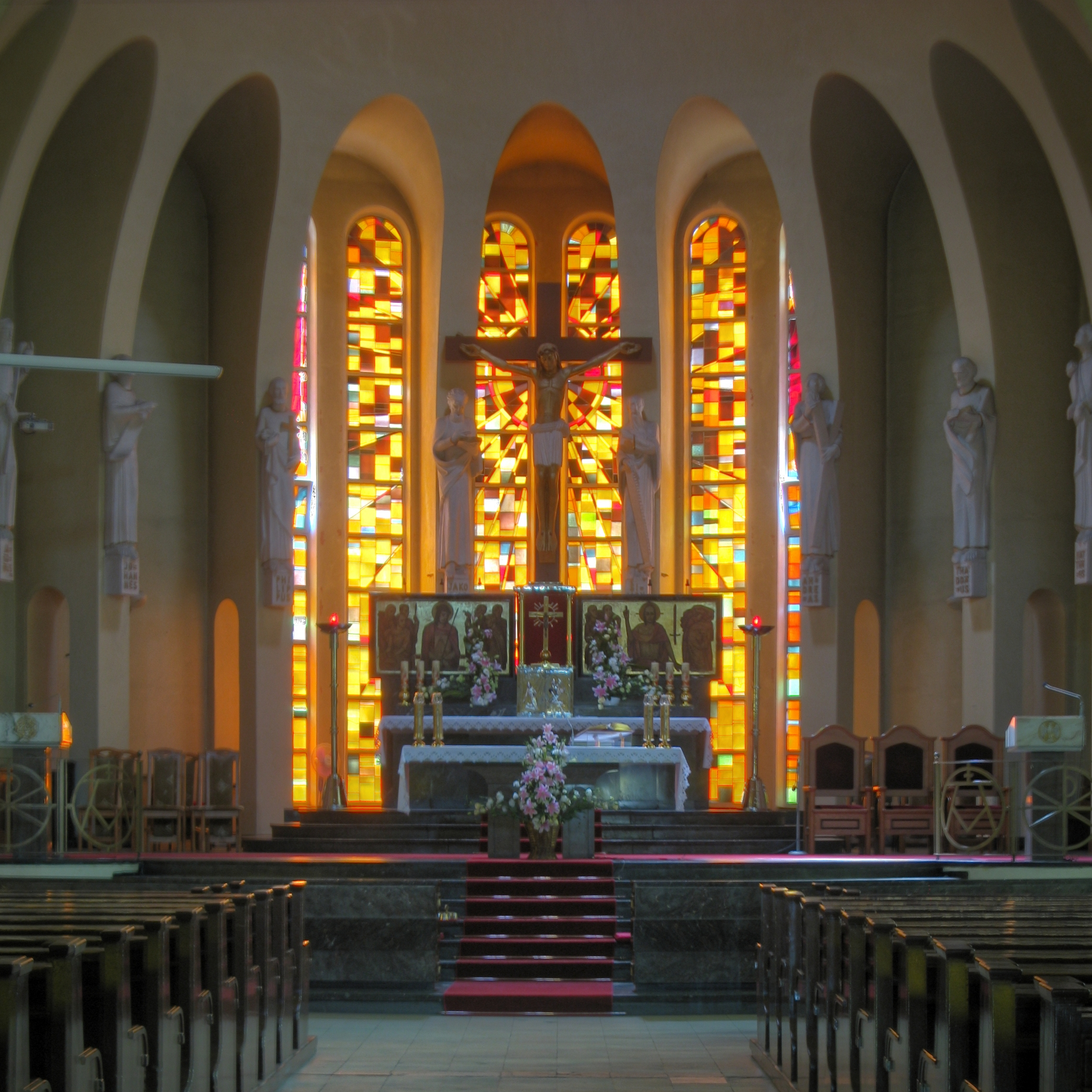 Bytom Exaltation of the Holy Cross church altar.